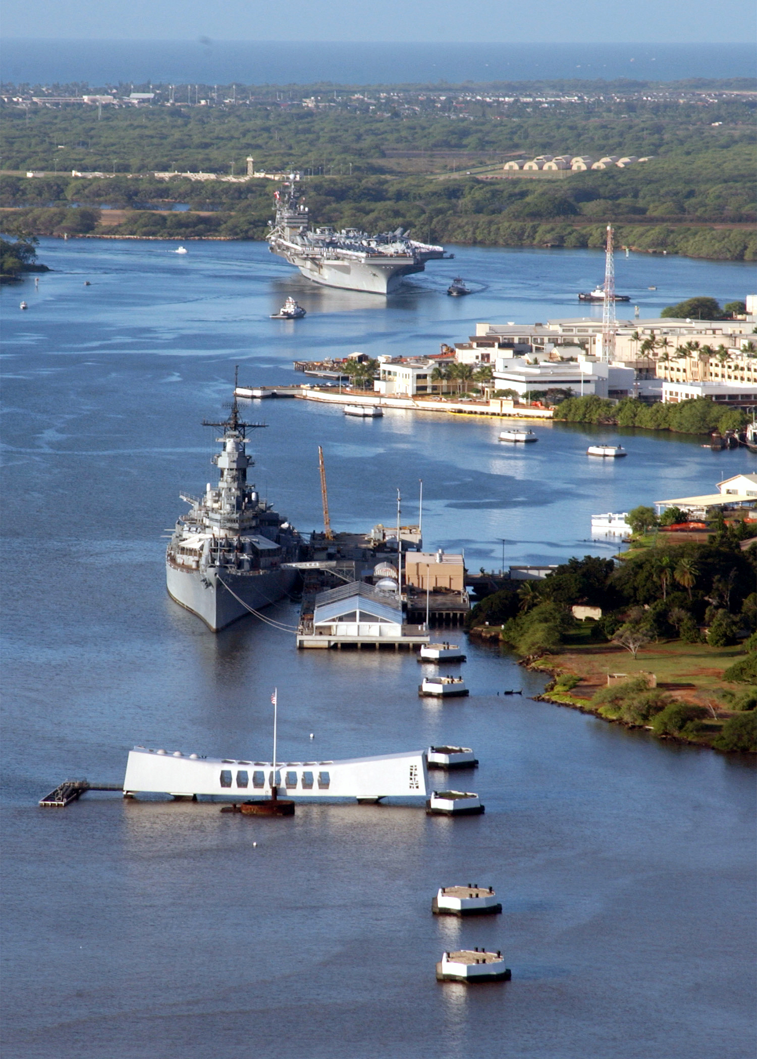 Naval Station Pearl Harbor, Hawaii (Jan. 31, 2003) -- USS Carl Vinson (CVN 70) pulls past the Arizona Memorial and the battleship USS Missouri (BB 63) as she enters Pearl Harbor. The Vinson Battle Group is pulling into Pearl Harbor for a liberty stop before continuing on her regularly scheduled training operations. U.S. Navy Photo by Photographer's Mate 2nd Class Carol Warden. (RELEASED)